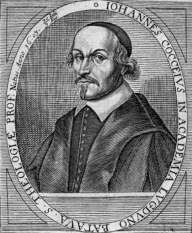 Woodcut of Johannes Cocceius. Presumed public domain by age. Generated from the image found here